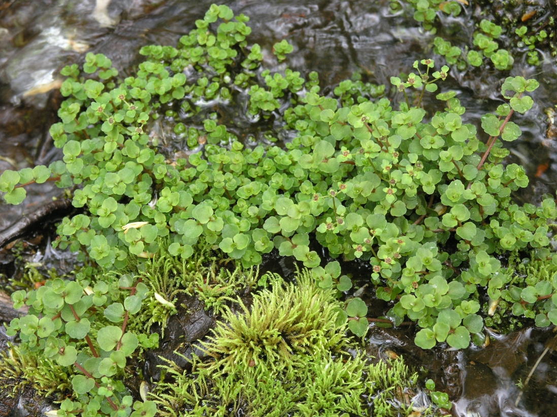 Chrysosplenium americanum in a rill on the slopes of Mount Sagamook, Mount Carleton Provincial Park, New Brunswick, Canada.